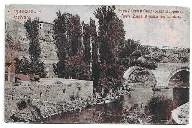 Serdar's Palace and Zanga in Erivan. Postcard of Russian empire